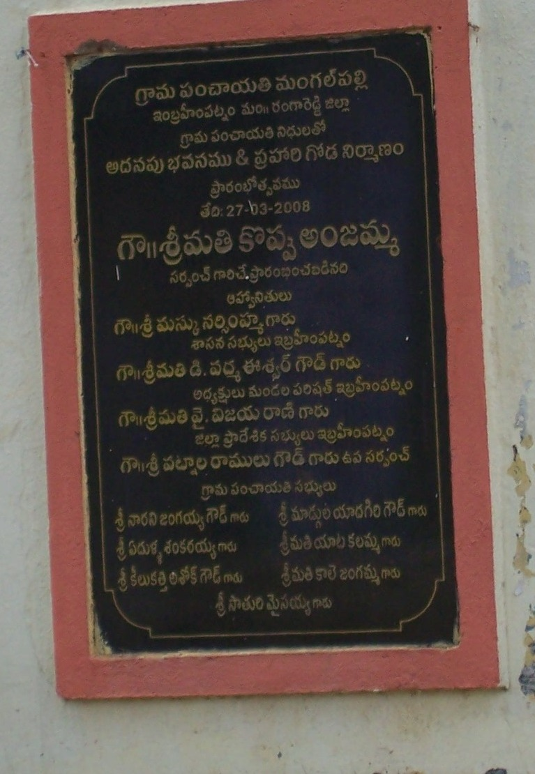 silapalakam